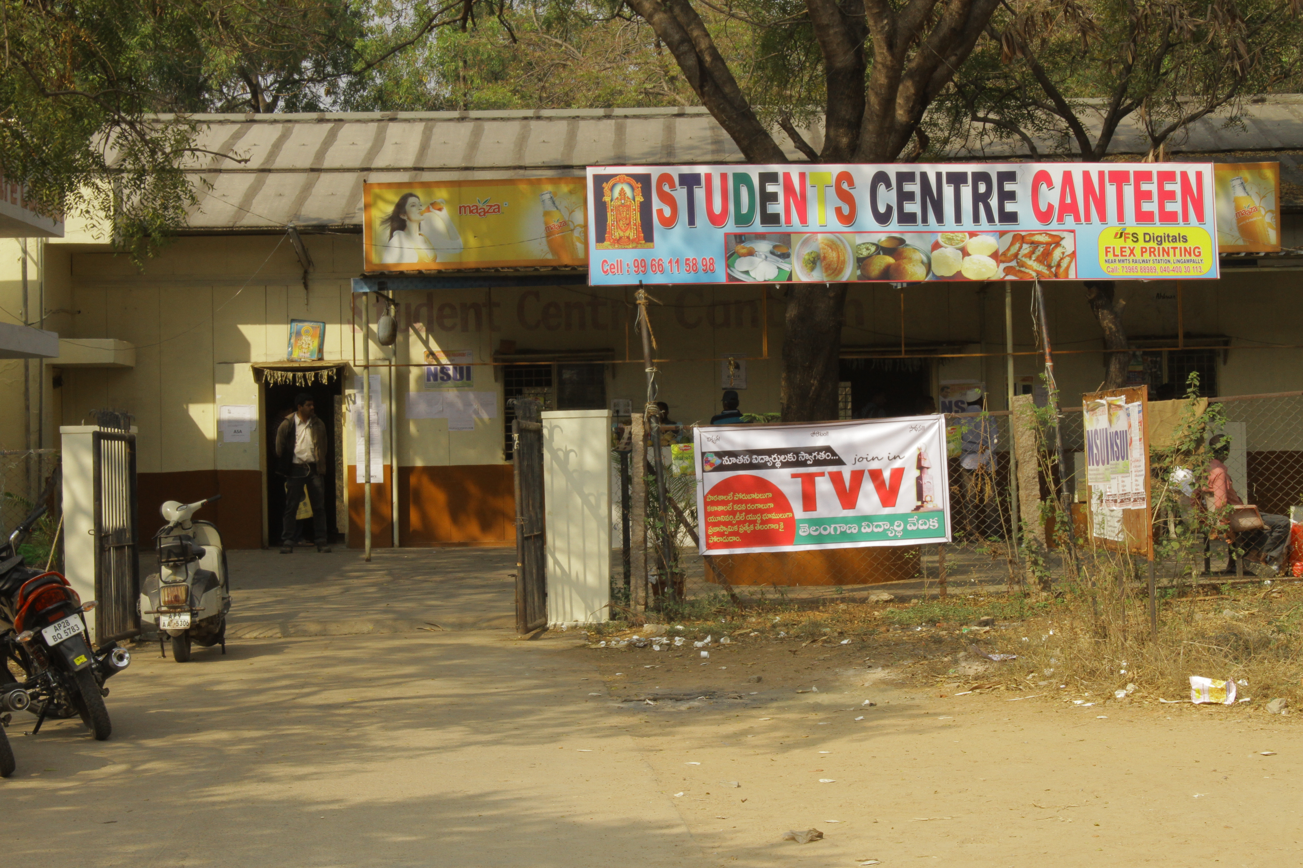 Students Centre Canteen